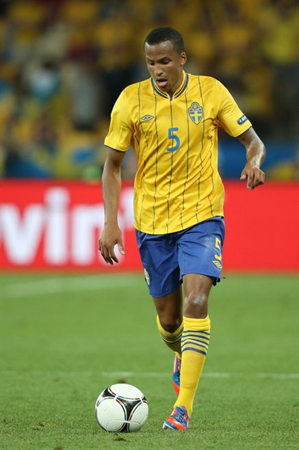 Martin Olsson at the Euro 2012 match against France